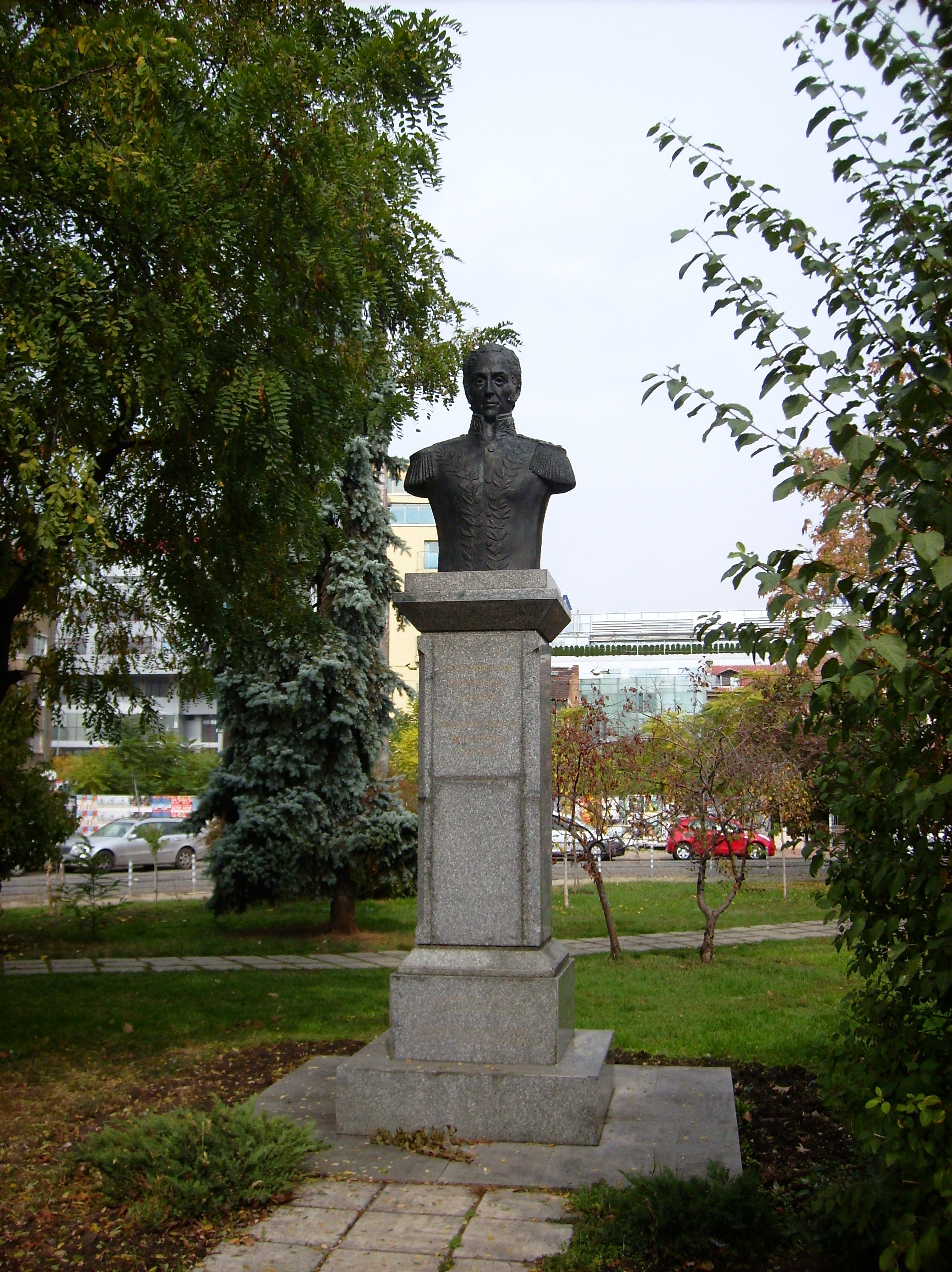 A Monument of Simon Bolivar in Sofia, Bulgaria